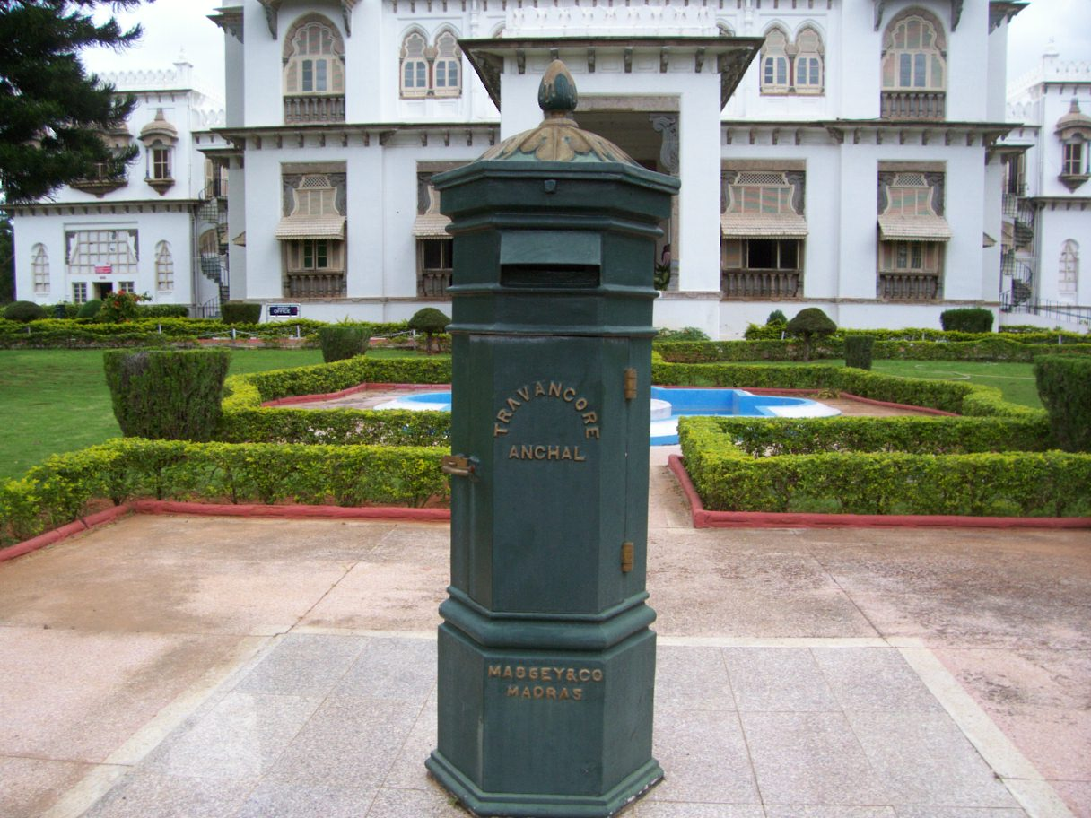 The old post box (Anchal) kept in front of Mysore Postal Training center